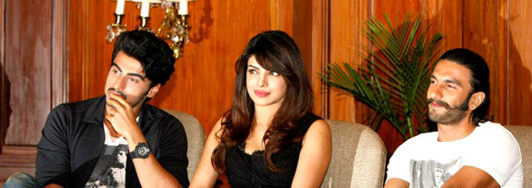 The cast of Gunday at the press conference in Kolkata.